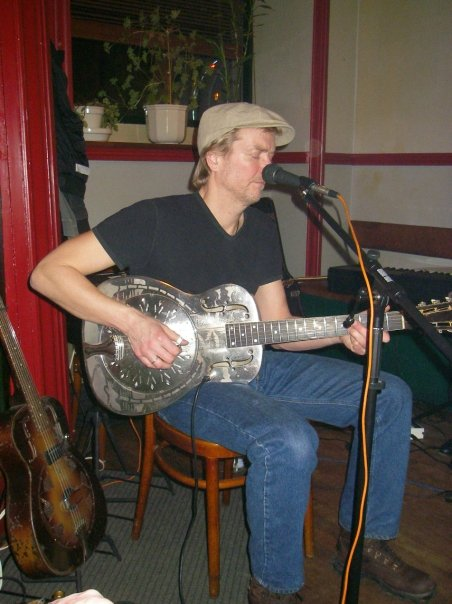 H.P. Lange with his National